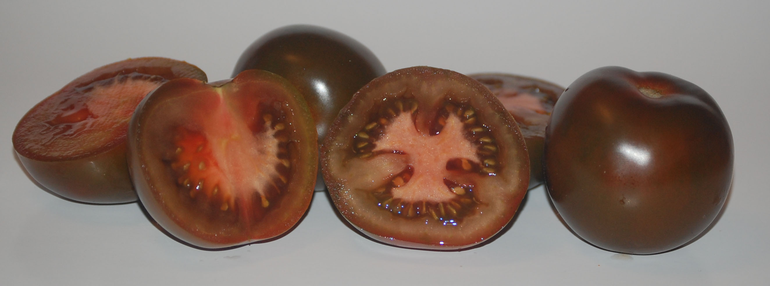 Kumato, a special breeding of tomatoes